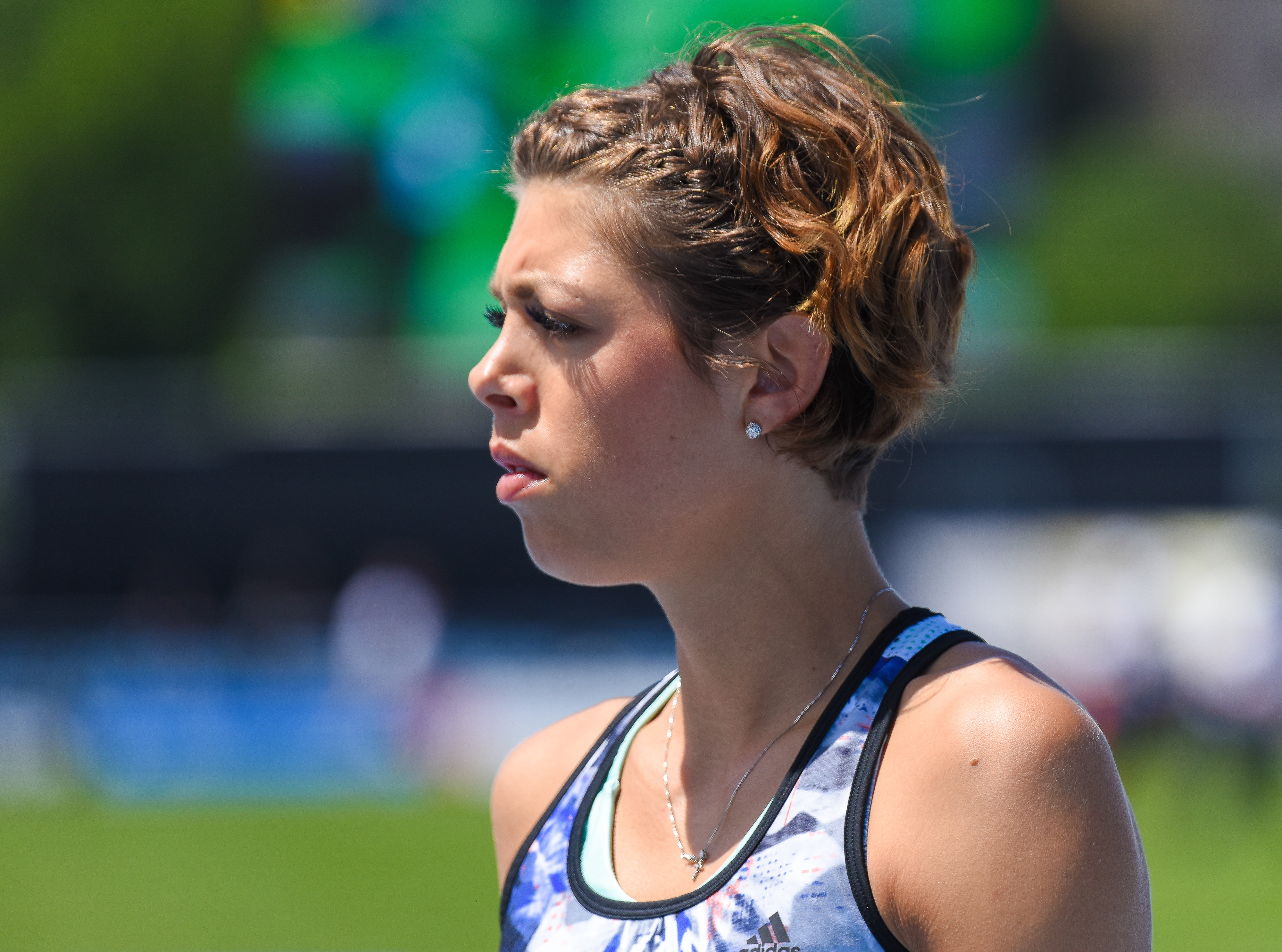 June 13, 2015 Icahn Stadium, Randall's Island New York, NY